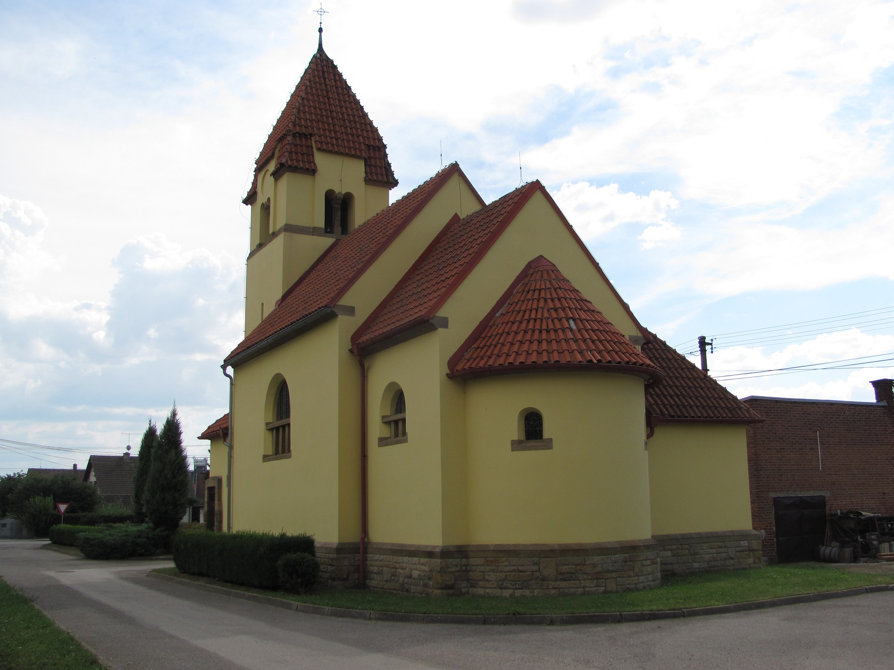 Holy Trinity Chapel in Ostroměř, Jičín District, the Czech Republic.